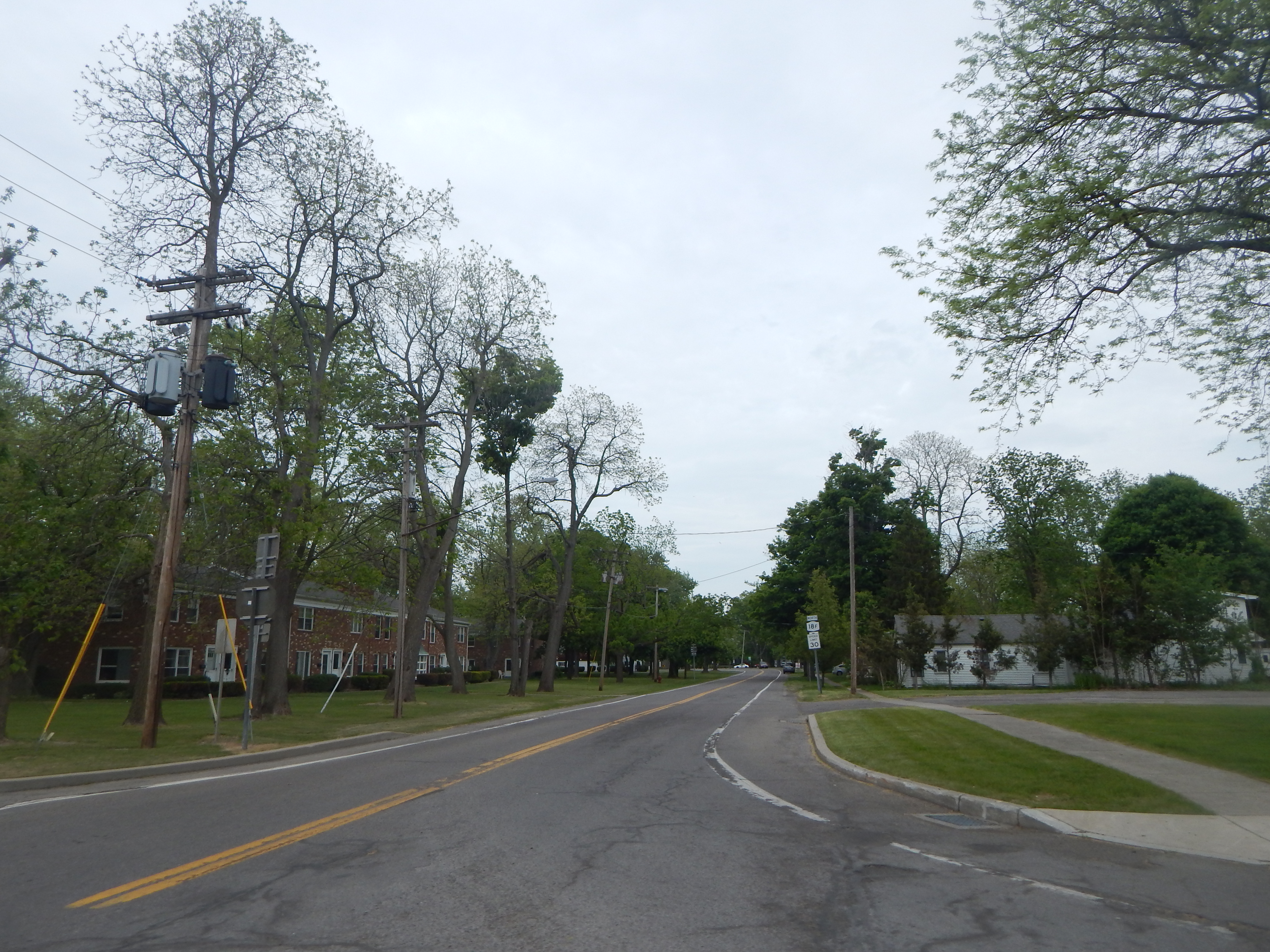 Route 18F north heading away from a junction with the entrance of Fort Niagara State Park in Youngstown.